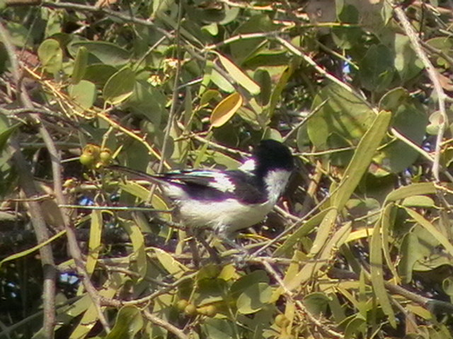 White-naped tit